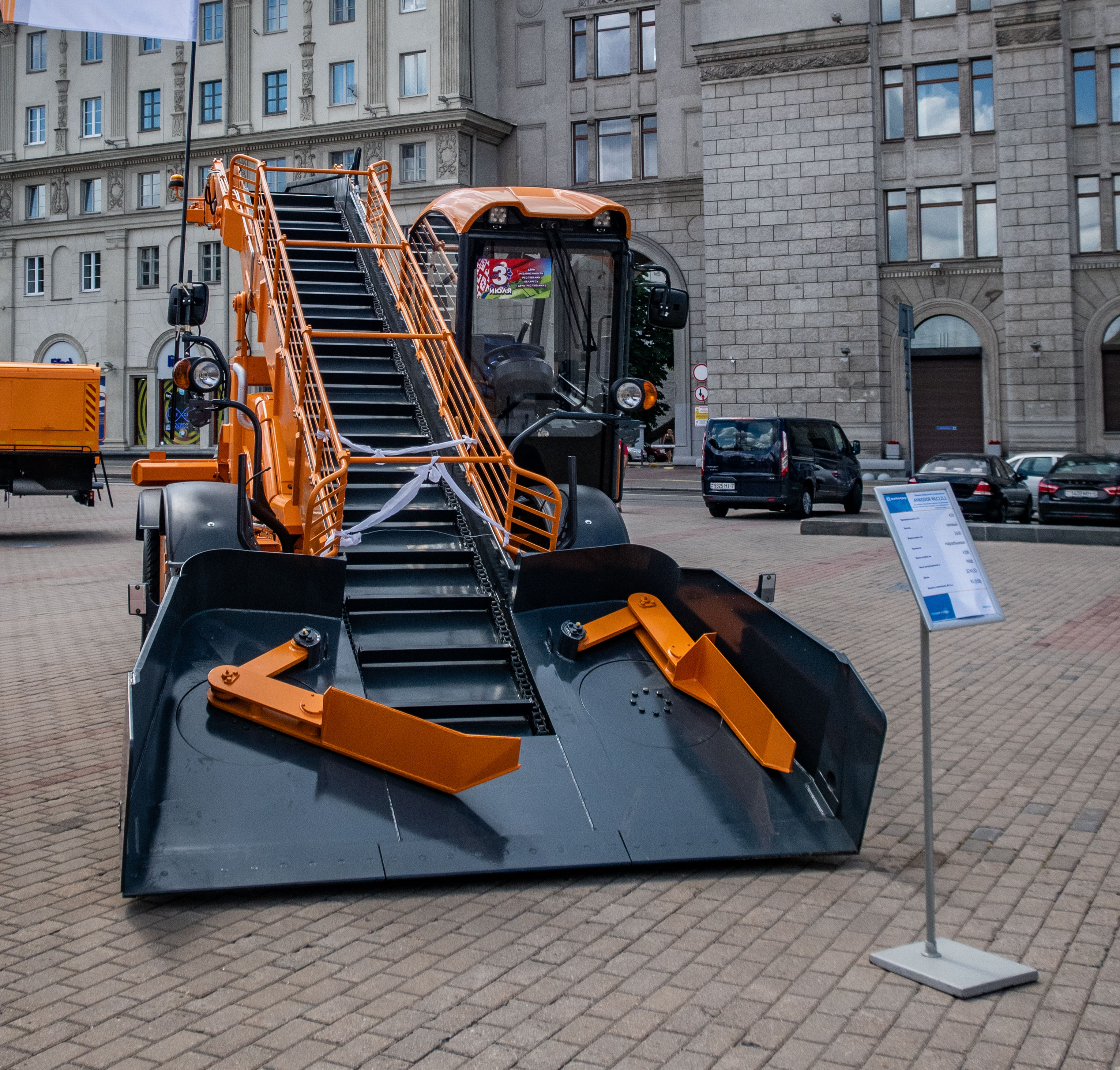 Amkodor WLC12L1 snow blower. Minsk, Belarus